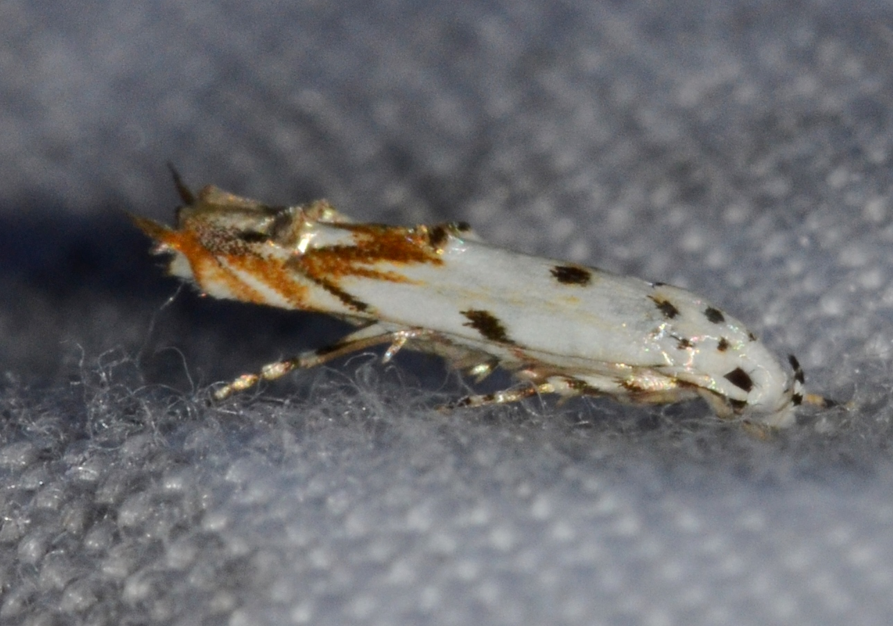 National Moth Week Event at Shaw Nature Reserve July 5, 2014